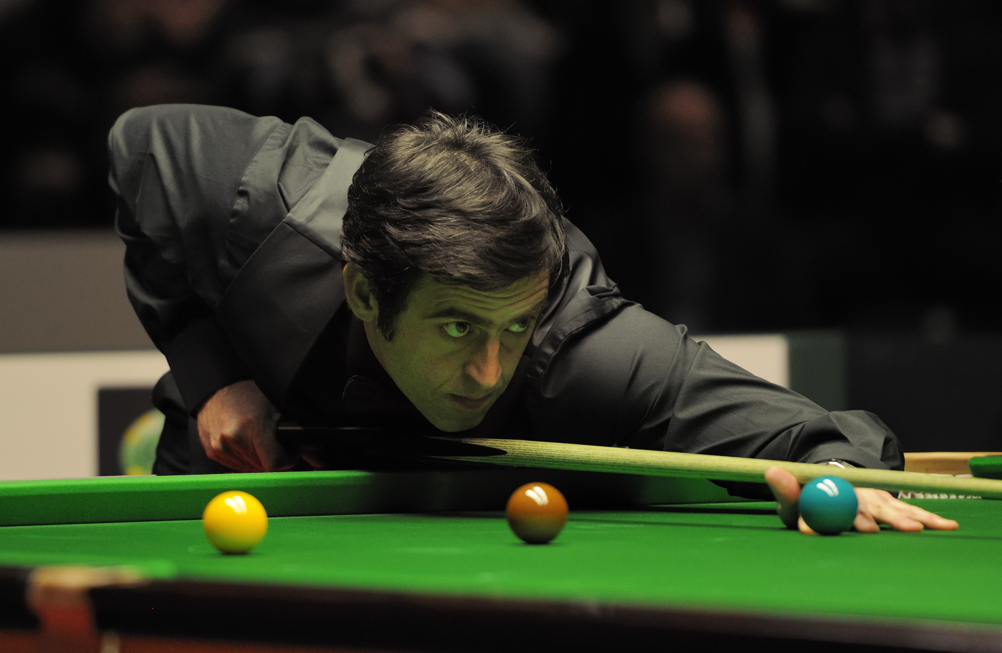 Picture taken in Berlin during the Snooker German Masters in 2011. Ronnie O’Sullivan.